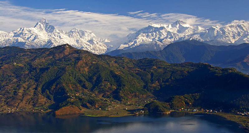 The Anapurna range from above Pokhara, Nepal. Phewa lake (below) and Machapucharé, Annapurna III, Annapurna IV, Annapurna II and Lamjung Himal (from left to right) on the horizon.